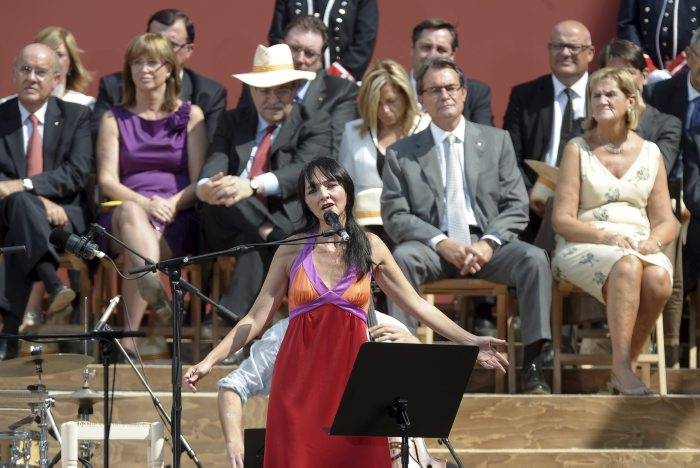 Maria de Medeiros singing at the ceremony of the National Day of Catalonia 2012